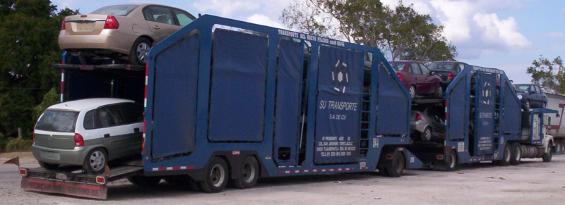 Truck (tractor unit) and two trailers, Campeche, Mexico